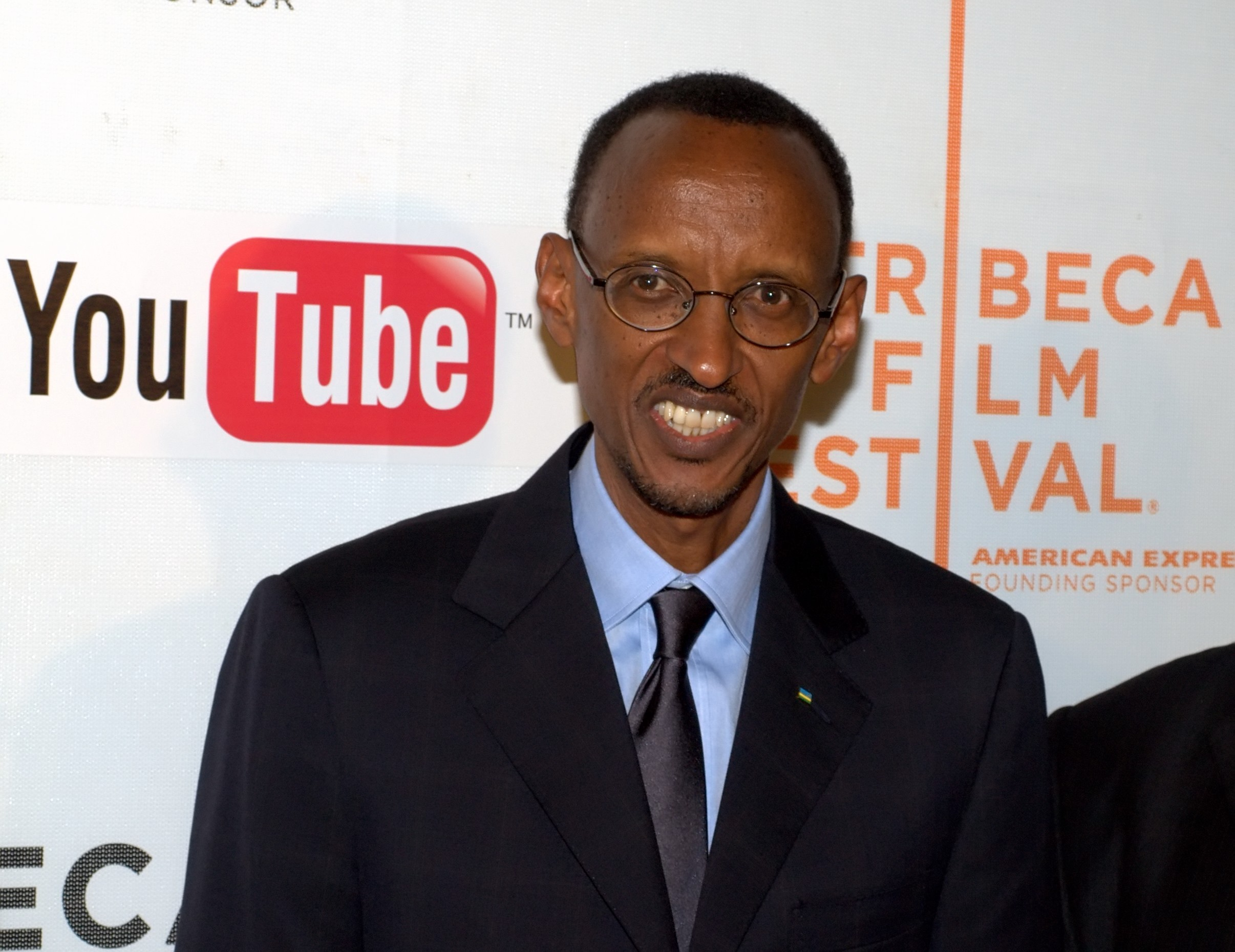 President Paul Kagame of Rwanda at the 2010 Tribeca Film Festival.